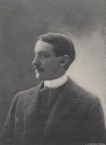 Silvanus B. Newton